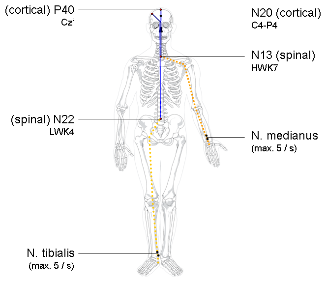 Somatosensory Evoked Potential in Humans